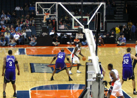 Bonzi Wells guards Kareem Rush of the Charlotte Bobcats in a 2005 game verses the Sacramento Kings.